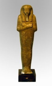 Древний Египет. XIV -XIII век до н.э. Изображение Ушебти. Гипс. 32,5x10x5,5.